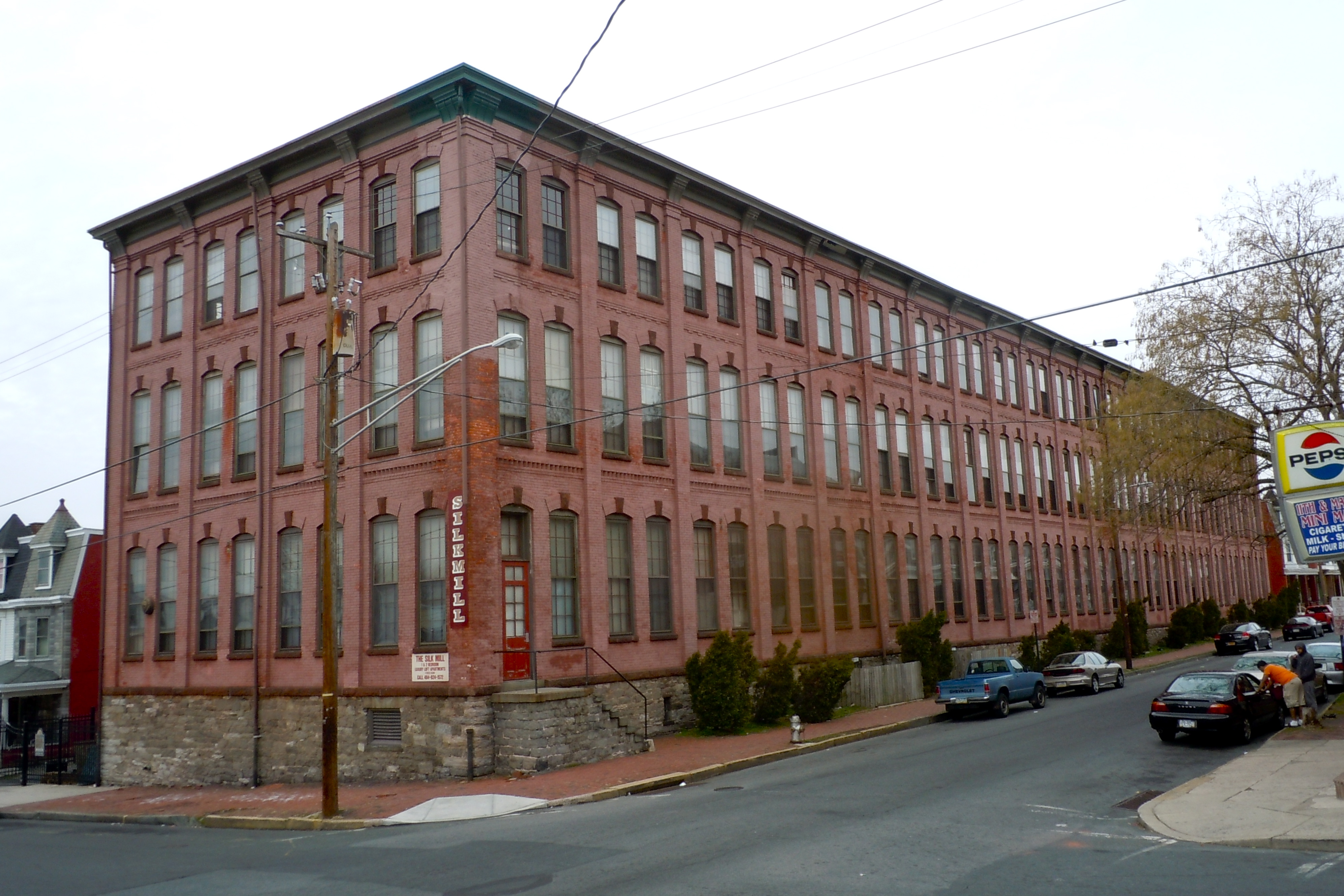 Grimshaw Silk Mill on the NRHP since January 31, 1985. At 1200 North 11th Street, Reading, Pennsylvania. Now condos. Very elegant for a factory.